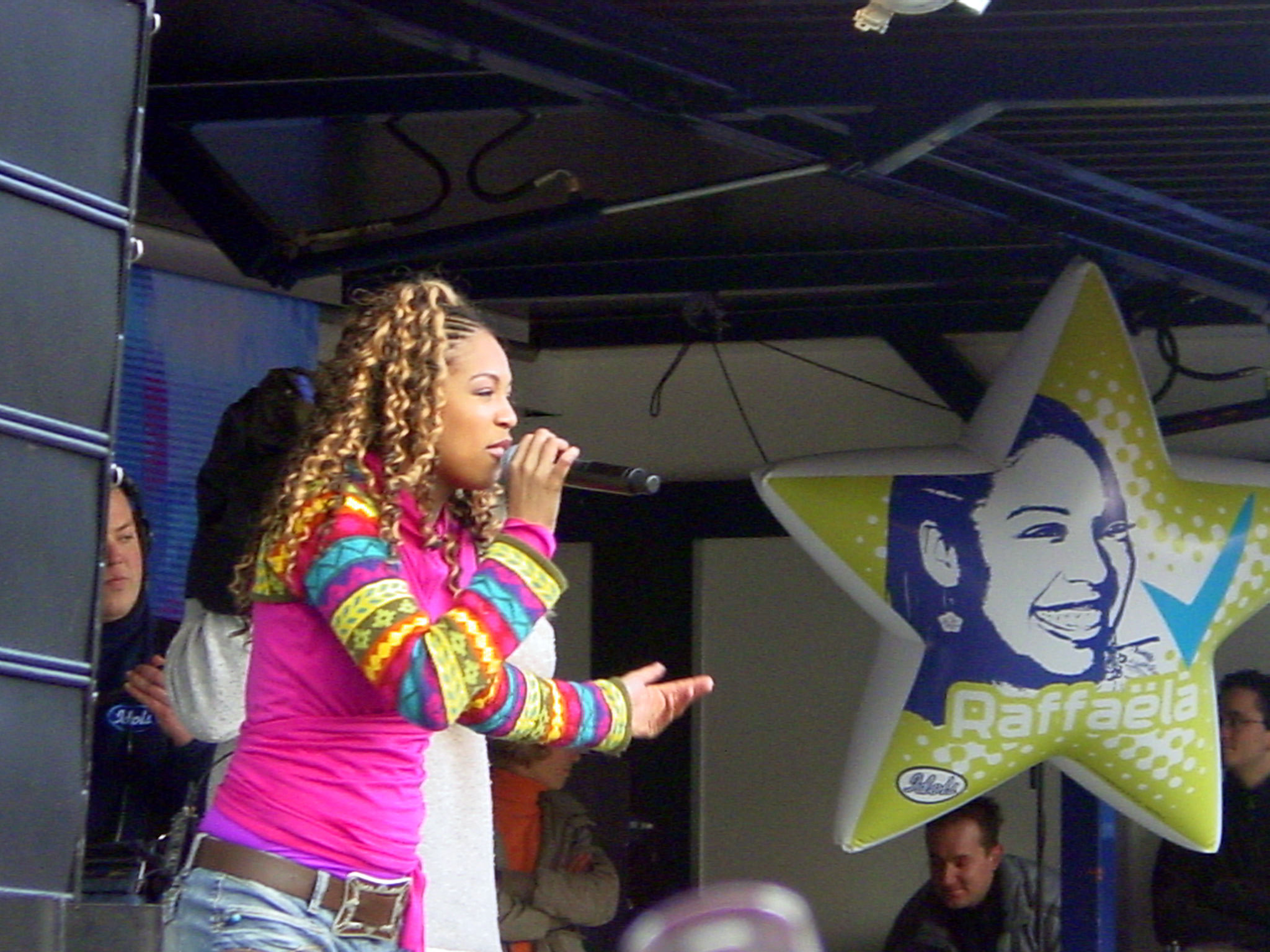 Raffaëla Paton in a promotion tour in emmen